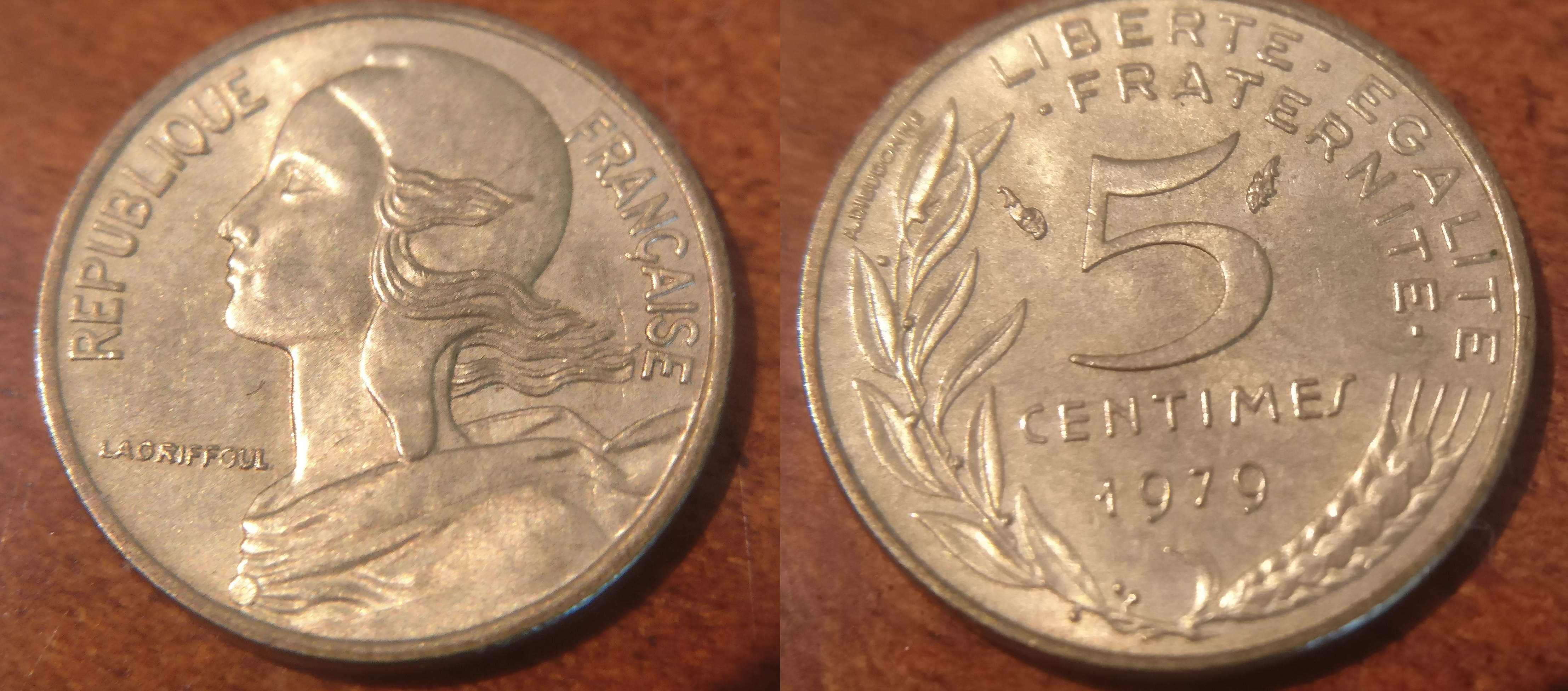 A French 5 Centimes coin from 1979